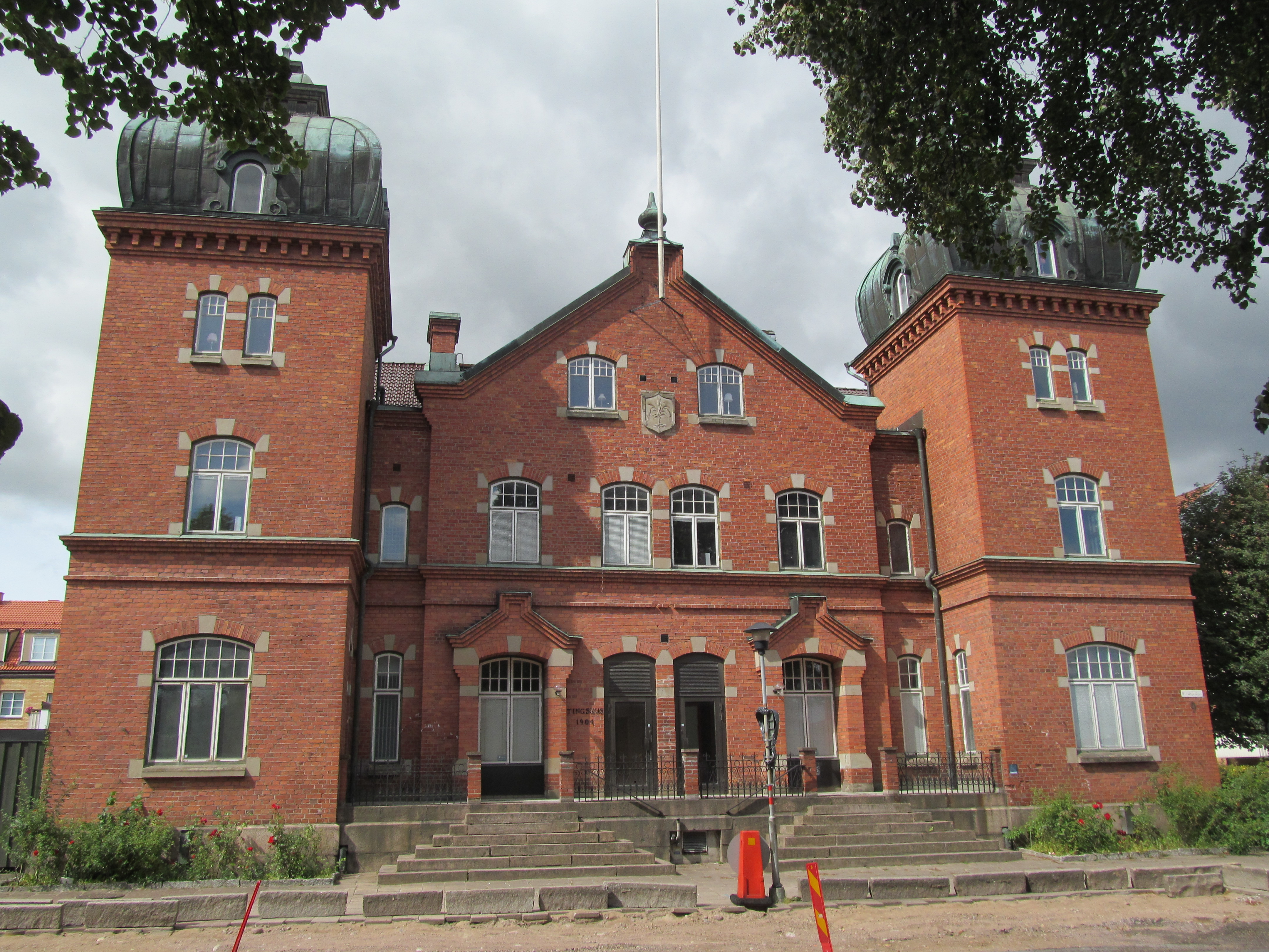 Building constructed as a courthouse in 1904 in Tidaholm, Sweden (Norra Kungsvägen 9). Architect was Frans Adolf Wahlström in Skövde. After the court was moved to Falköping, the building housed the local police department between 1973 and 2013.